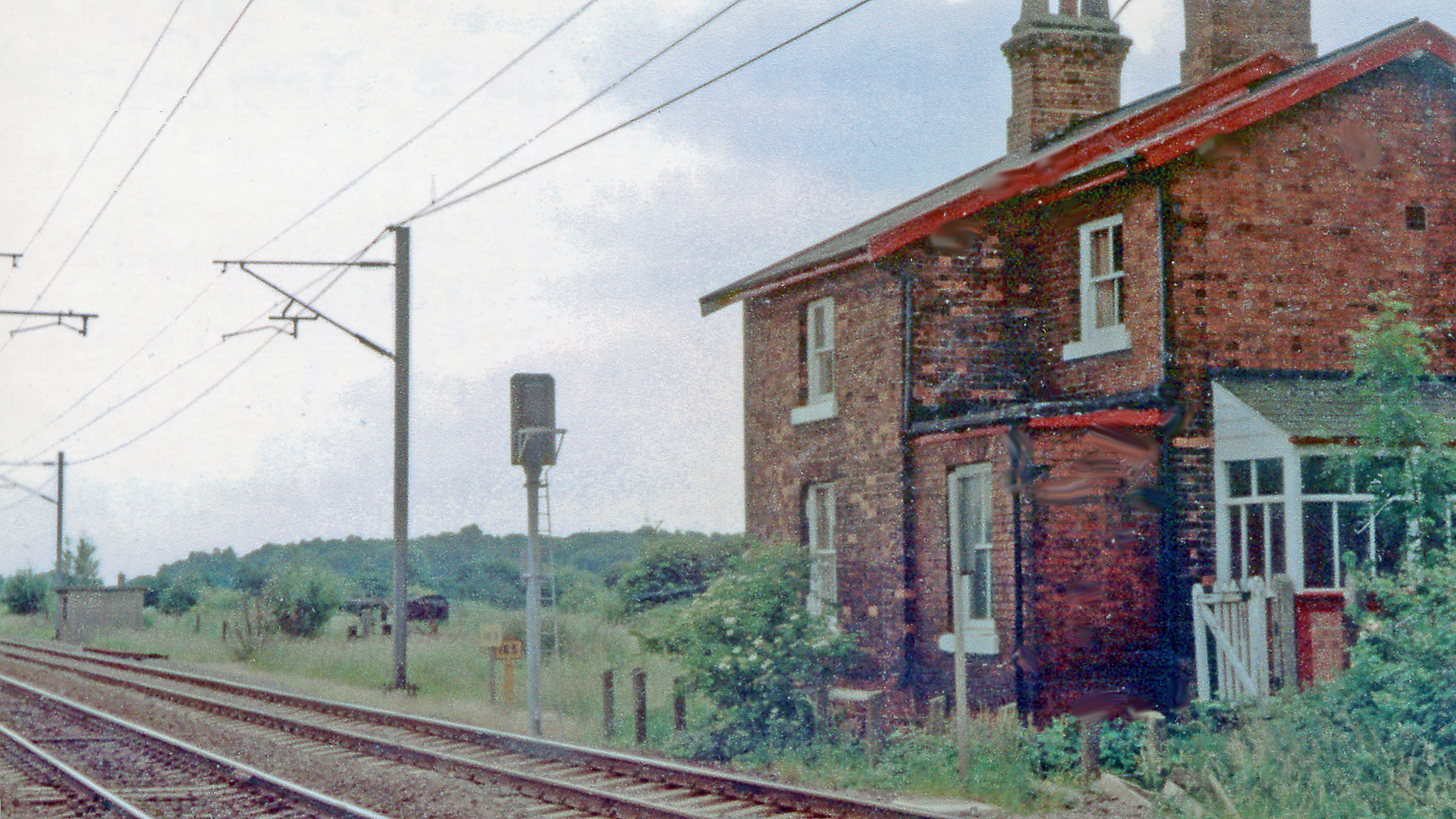 Site/remains of Moss station, East Coast Main Line, 1992. View southward at the level-crossing, towards Shaftholme Junction, Doncaster and the South. This had been the first wayside station on the long ex-NER stretch of the ECML from Shaftholme Junction to Berwick-upon-Tweed, but it was one of the many stations (on 8/6/53) closed in the interests of speeding up through traffic. Doncaster - York was electrified in 1989.